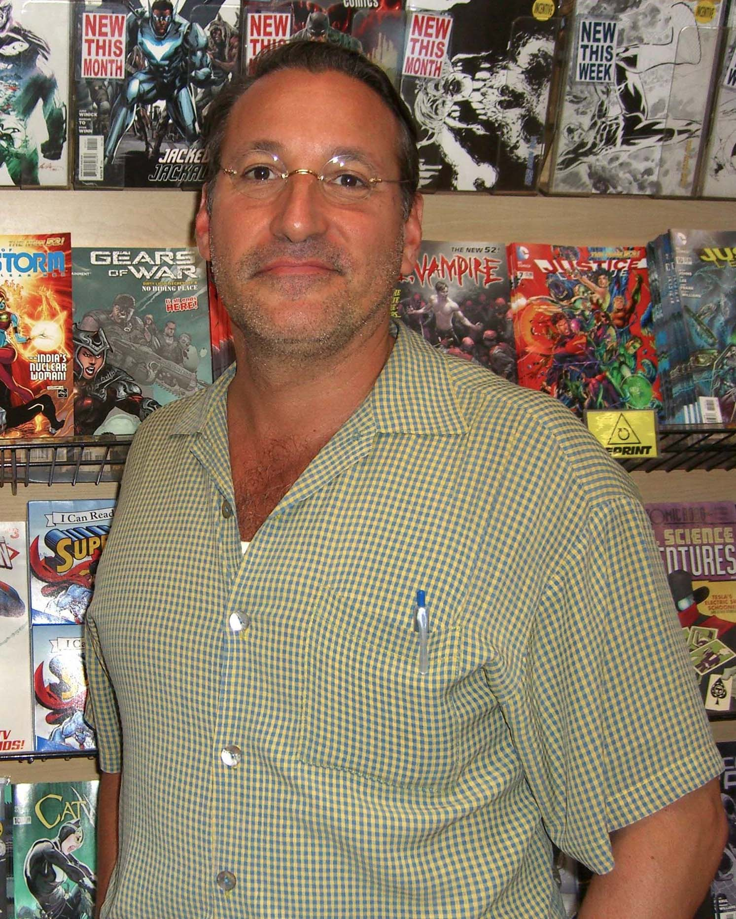 Comic book creator Chip Kidd at a June 28, 2012 signing of Daredevil Born Again: Artist Edit by David Mazzucchelli at Midtown Comics Downtown in Manhattan. This photo was created by Luigi Novi. It is not in the public domain, and use of this file outside of the licensing terms is a copyright violation.